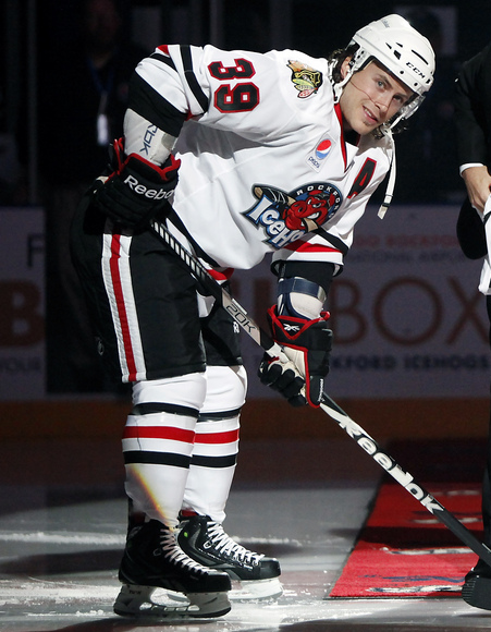 Greg Hamil/Rockford IceHogs American Hockey League (AHL). Photographs of the American Hockey League, 10/19/12-10/25/12